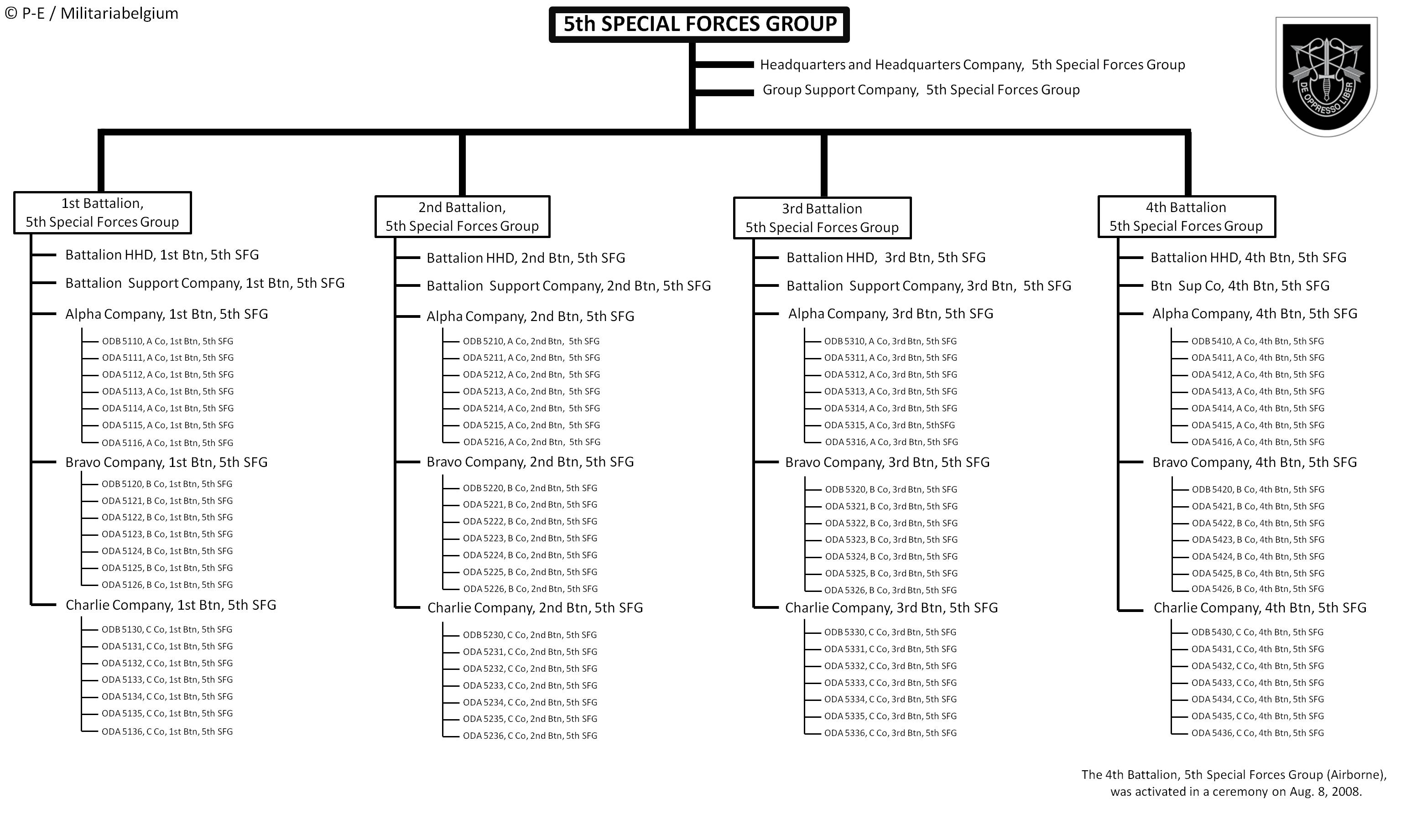 Order of Battle of the 5th Special Forces Group after the addition of a fourth battalion.